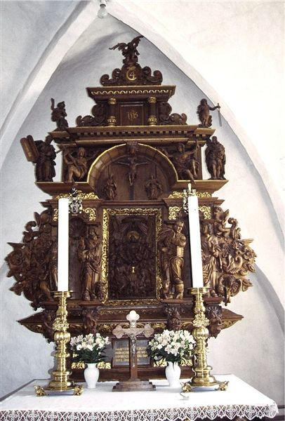 Fårevejle Kirke (church) in Odsherred Kommune. From apr. 1100. Altar from 1641.